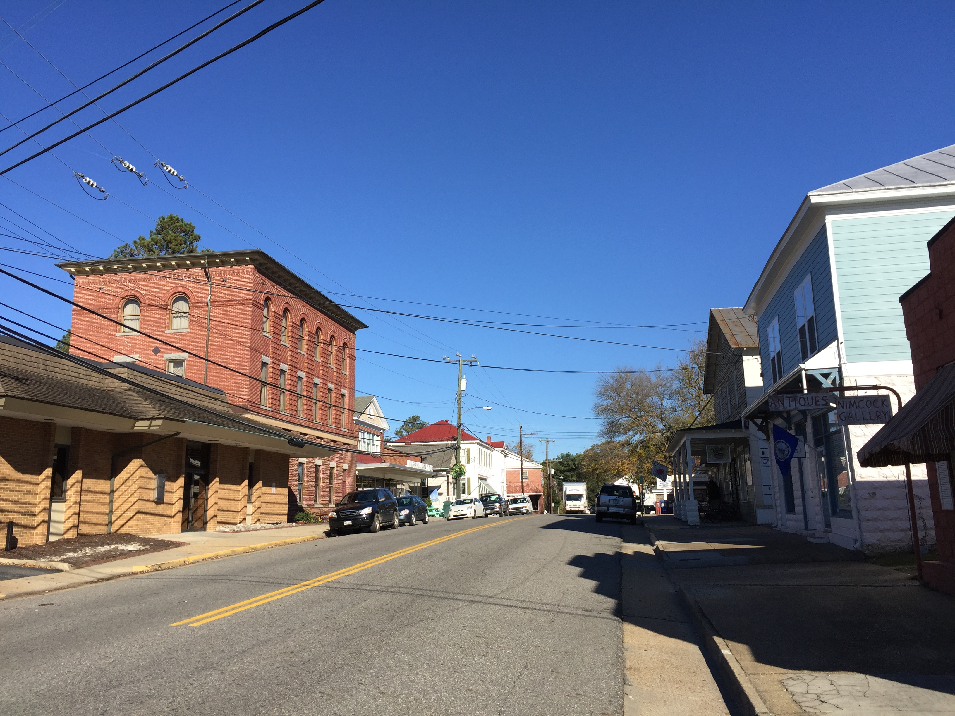 Urbanna Virginia historical district, seen from Cross Street